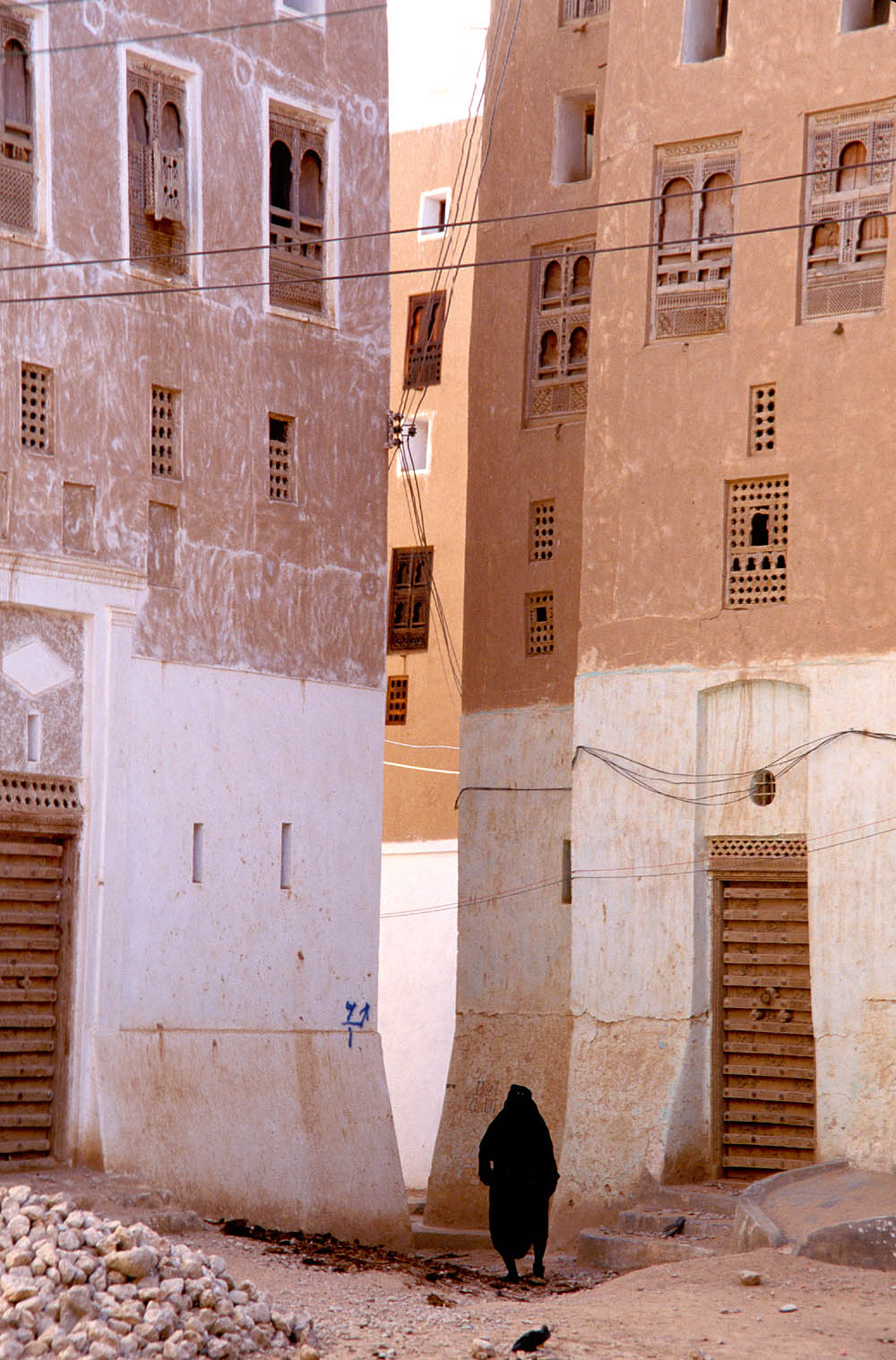 Buildings inside the high-rise town of Shibam, Wadi Hadhramaut (or Hadhramout, Hadramawt) Yemen, with traditional windows and doors.